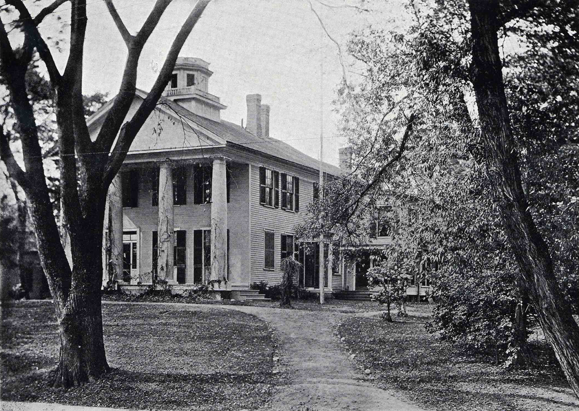 A photo of the physical plant of Phi Kappa Psi, a fraternity at Dartmouth College. See Dartmouth College Greek organizations.